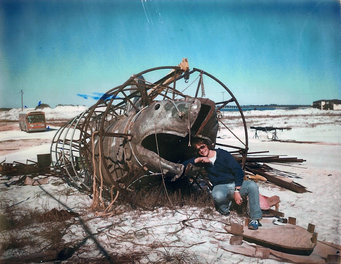 Passing though Navarre Beach Florida (dec. 26 1997) at holiday in where filing was done for the movie, took a picture along side of Bruce not sure if its the body mold or a special mechanical effect